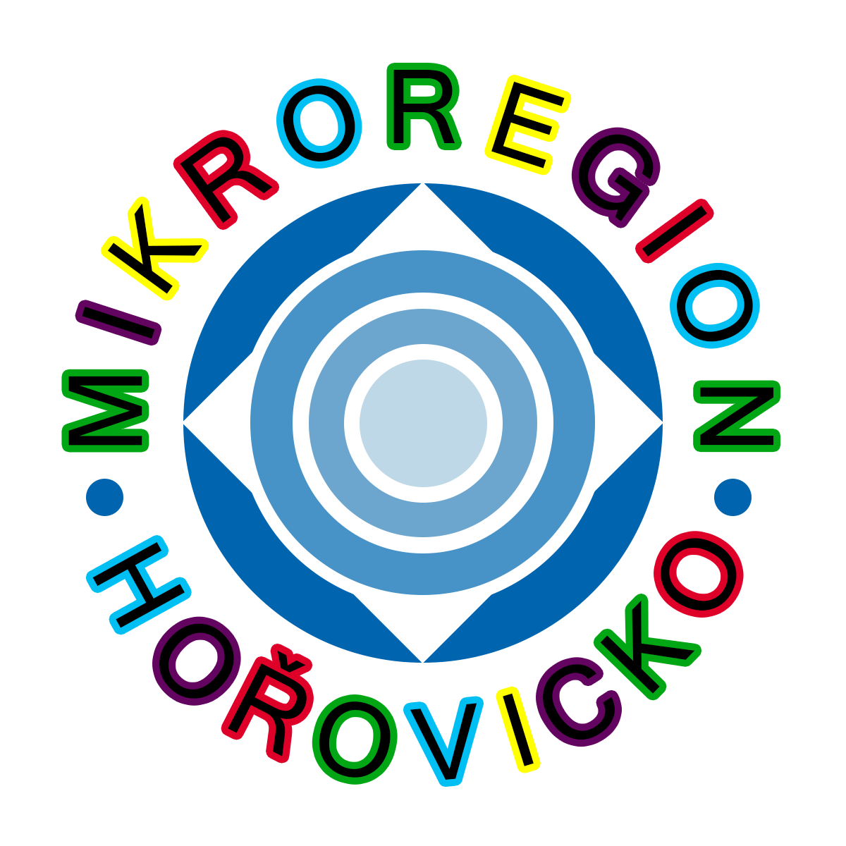 logo of the hořovicko microregion